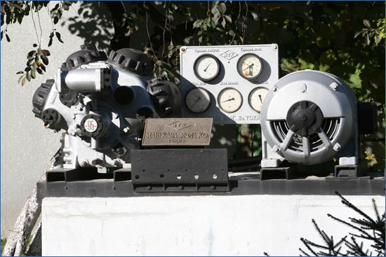 Old machinery equipment TM "LIMO" (JSC "Lviv Freezer Factory")